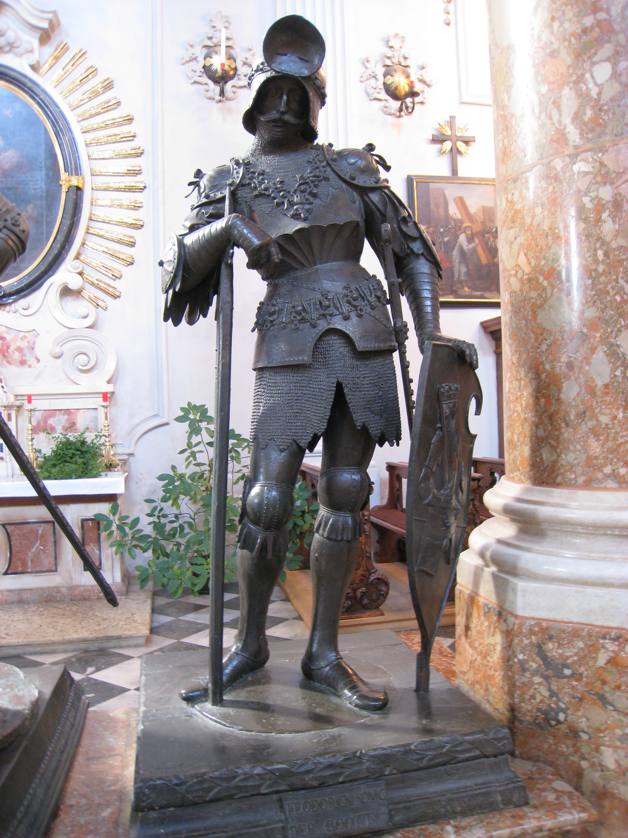 16th century statue of Theoderic the Great made by Peter Vischer the Elder. Located within Hofkirche, Innsbruck, Austria.